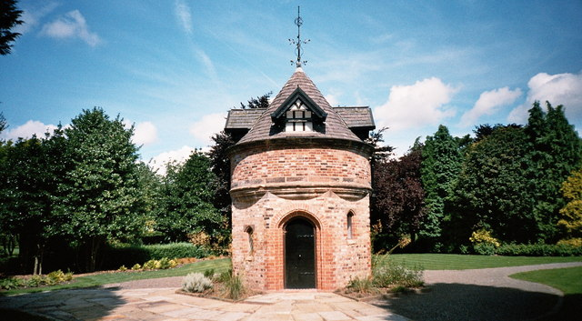 Dovecote in Walkden Gardens, Sale, Greater Manchester. The dovecote is the only remaining building of Sale Old Hall, which was demolished in the 1930s. The dovecote was moved in 2003 from its original location a mile away at Junction 6 of the M60, and rebuilt brick by brick in Walkden Gardens in 2004.